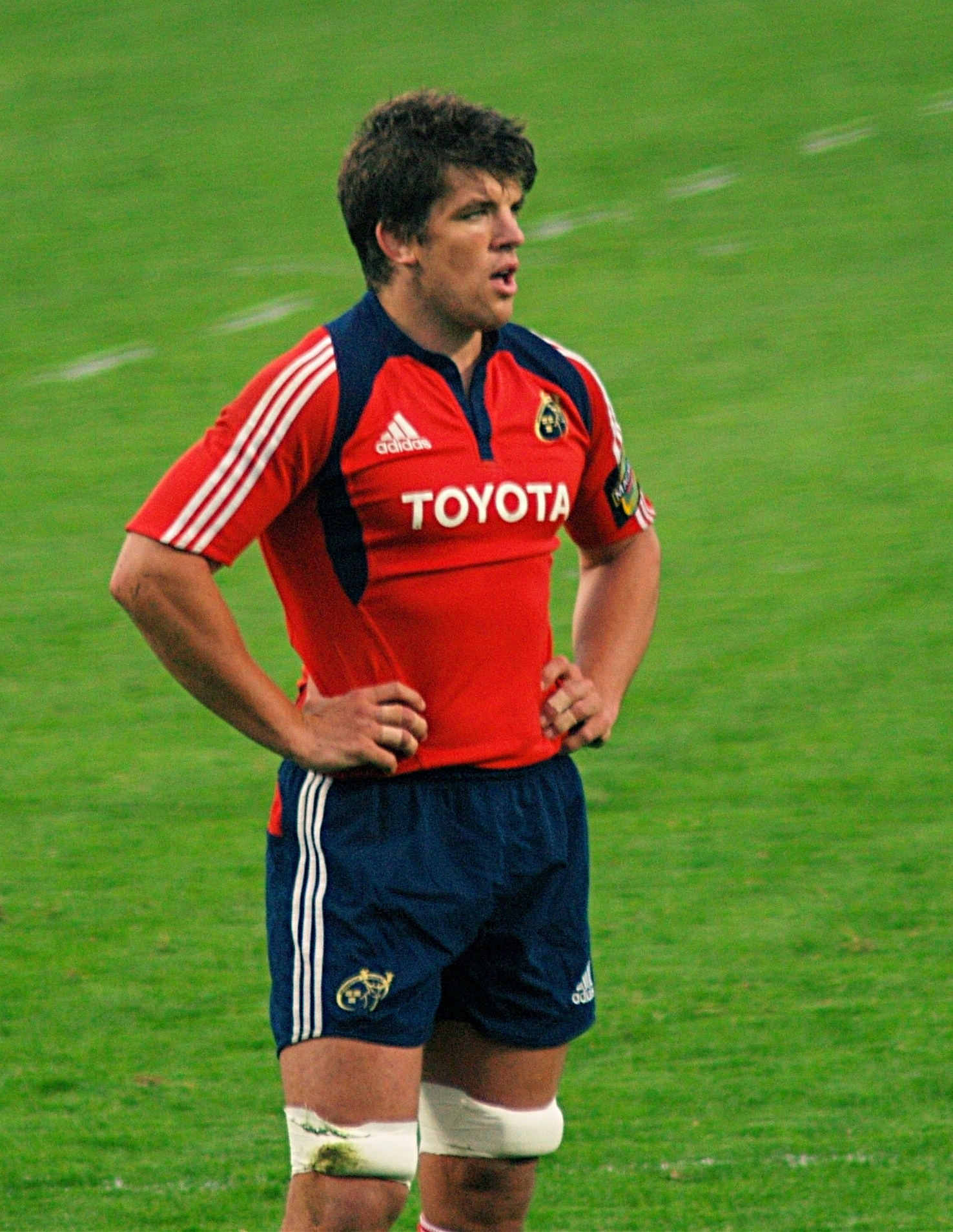 Munster, Ireland and British & Irish Lions lock forward Donncha O' Callaghan. This taken while playing for Munster against the Llanelli Scarlets in Musgrave Park, Cork, Ireland.